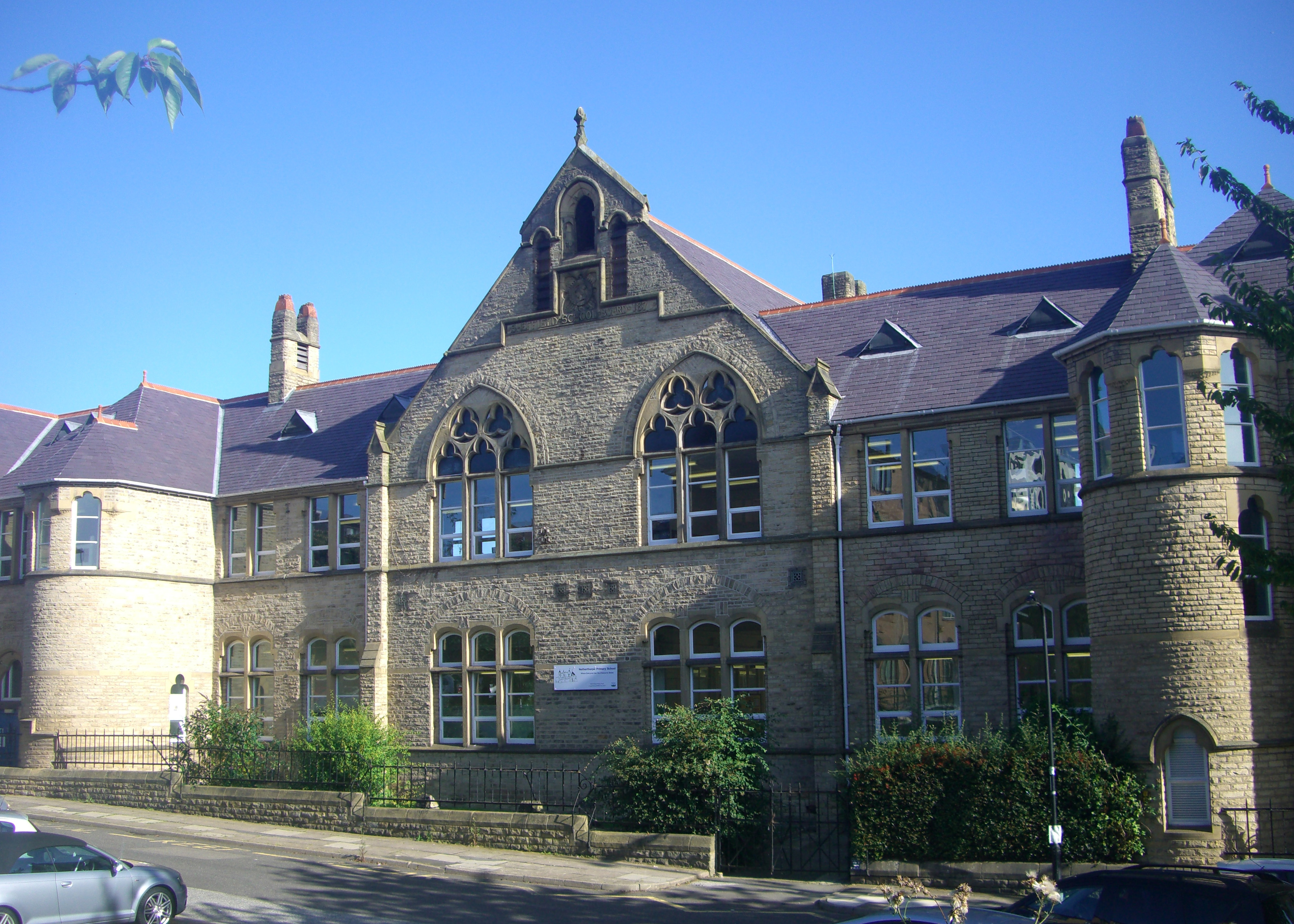 Netherthorpe Primary School In Sheffield, England. A Grade II listed building.